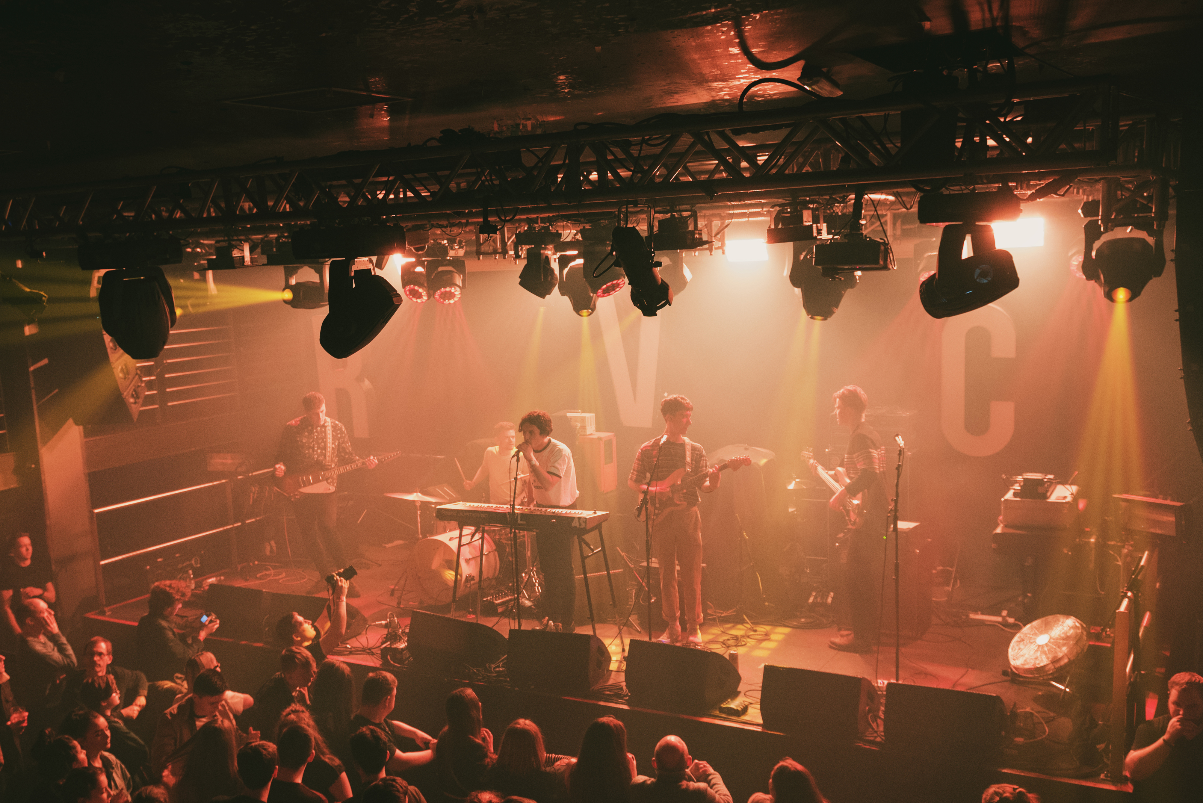 Lindsay Forsyth